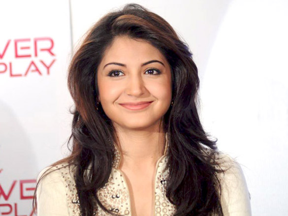 Anushka Sharma at IPL Godrej Power Play launch